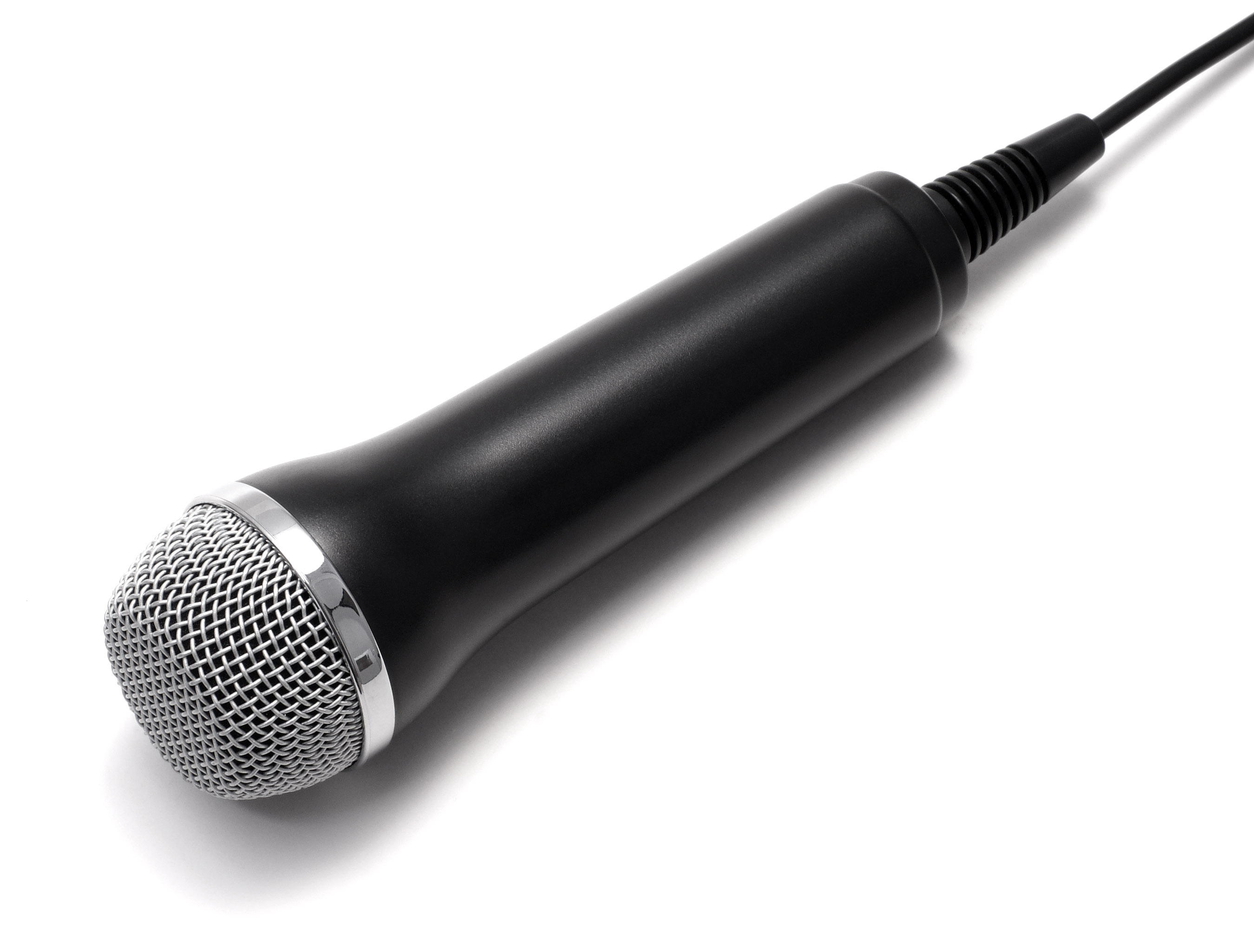 A USB microphone. Specifically, the microphone that comes with the Rock Band videogame for the PS3.